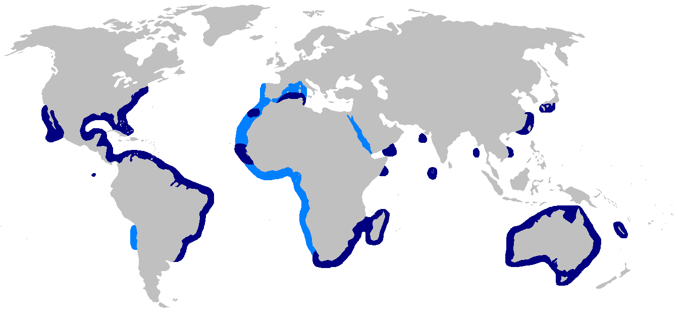 Distribution map for Carcharhinus obscurus